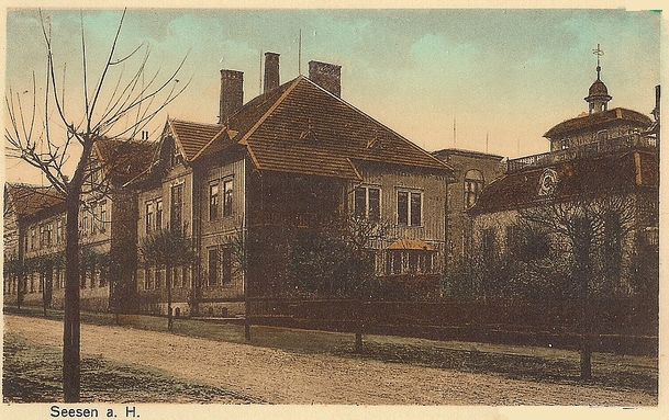 Jacobson school and synagogue in Seesen (Germany)